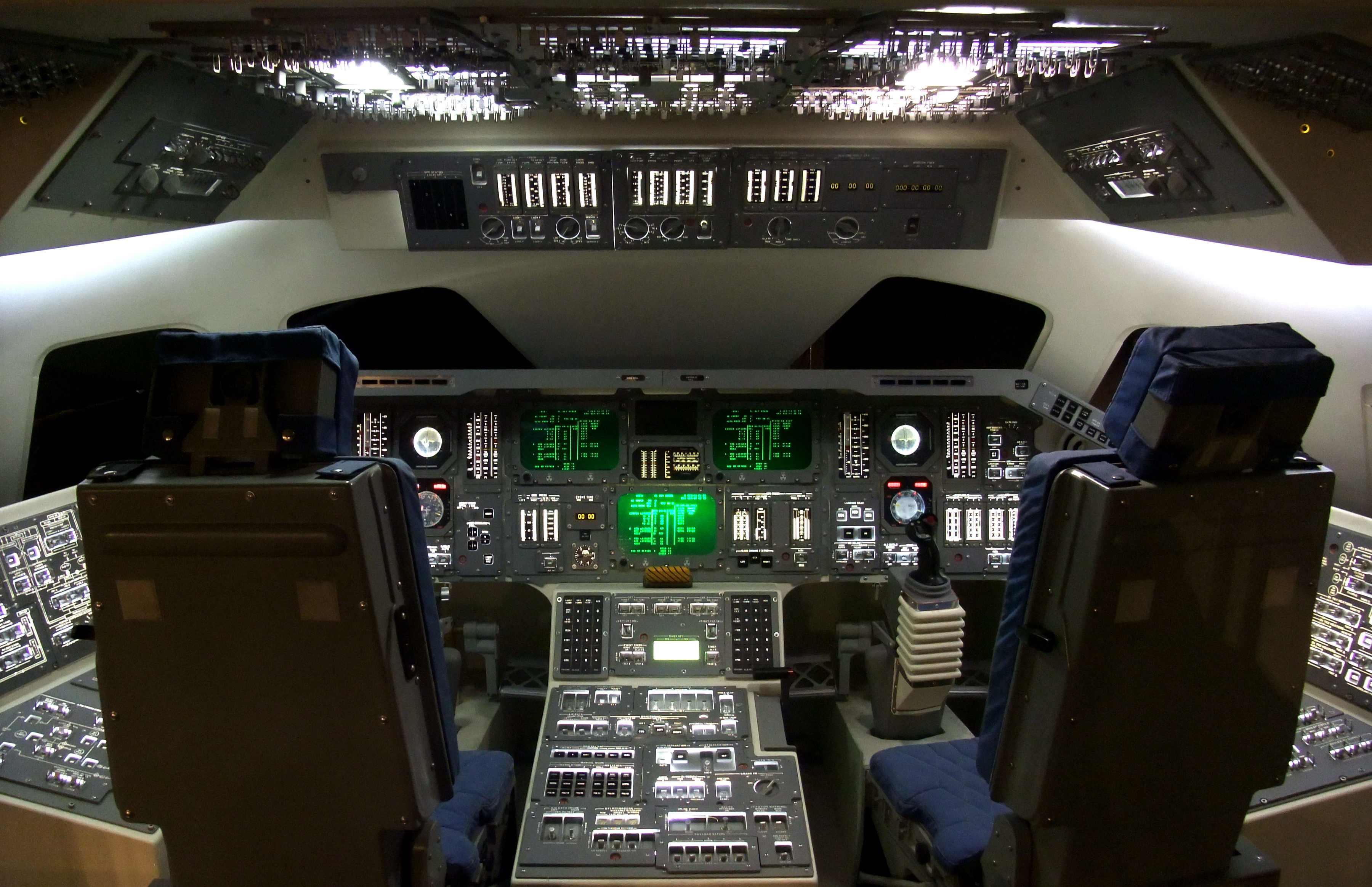 A mockup flight deck of a Space Shuttle at the Hong Kong Space Museum.